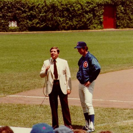 I took this photo of Milo Hamilton preparing to interview Mike Krukow at Wrigley Field on June 11, 1981. ACTUALLY JUNE 10 - PHOTO MISLABELED.